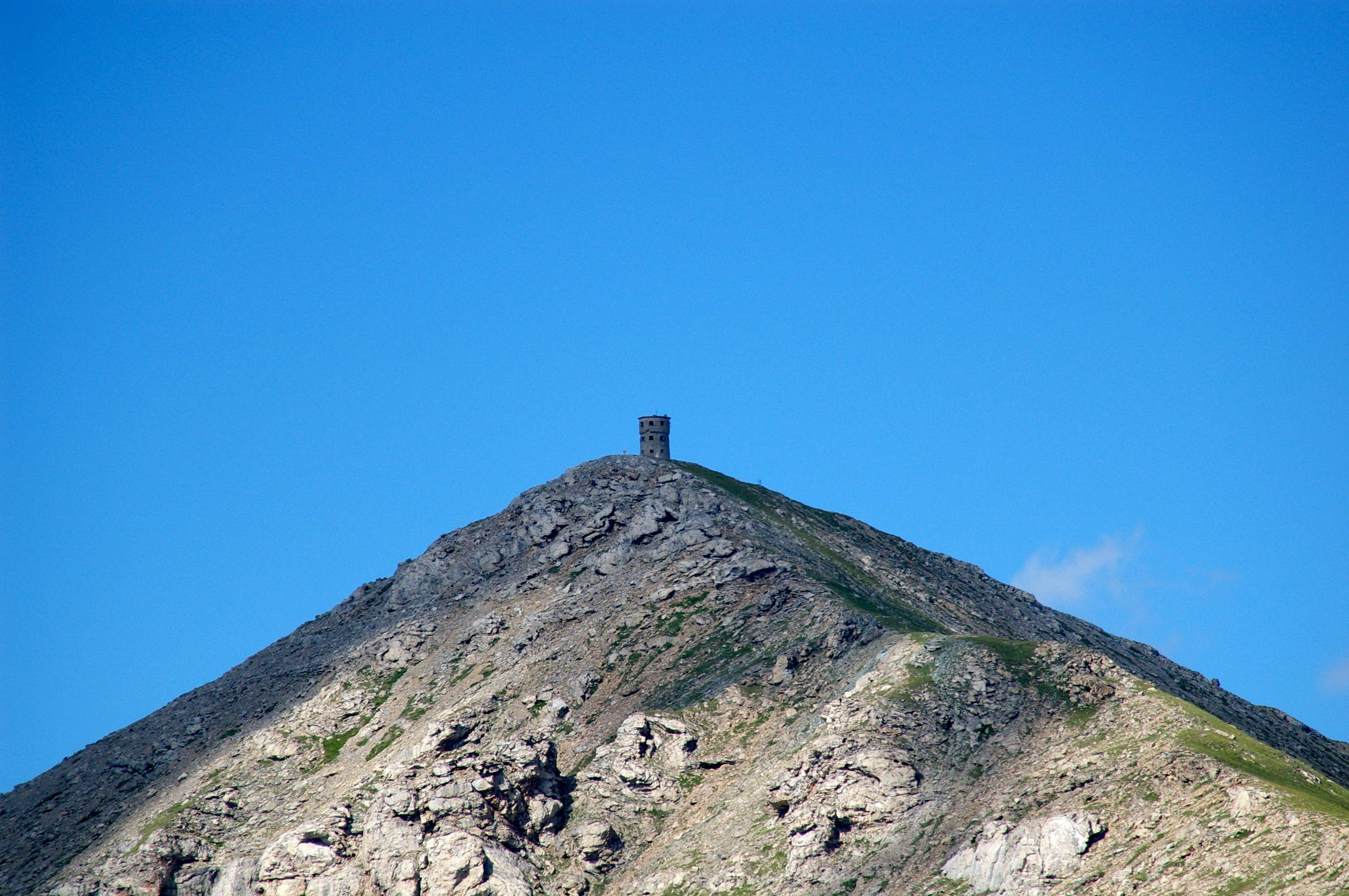 Titov vrv, Macedonia, the highest peak in the Šar mountain at 2748 m., summit